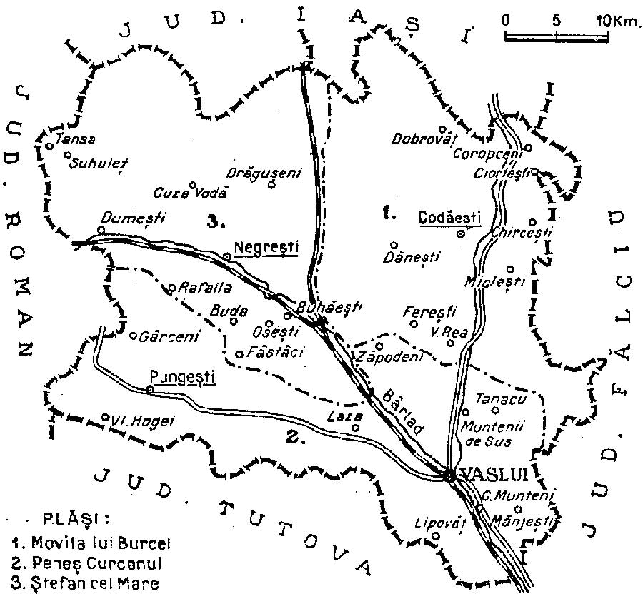 Map of Vaslui interwar county, Kingdom of Romania (1938).